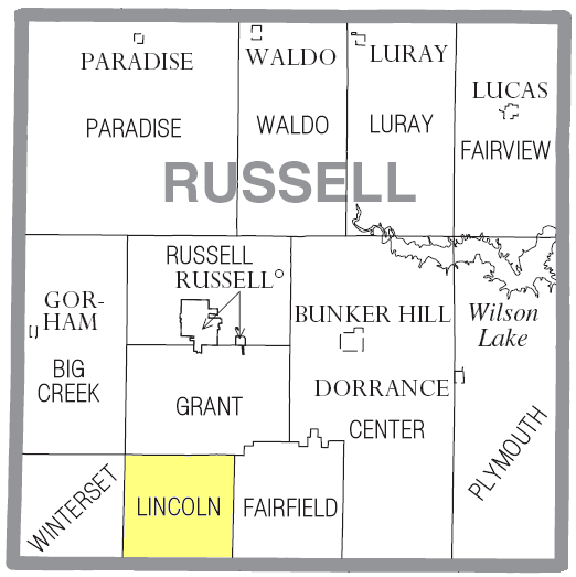 Map of Russell County, Kansas highlighting Lincoln Township